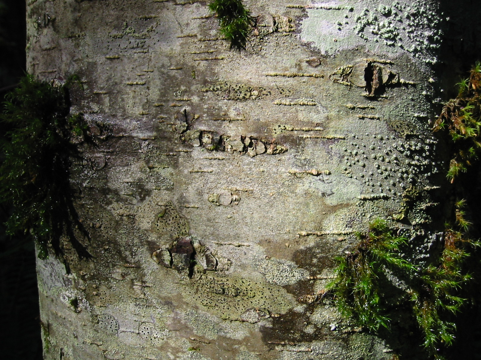 Red Alder bark. Moss and lichen grow on its surface. The tree is in a alder forest and is about 15 m high and 0.25 m in diameter.